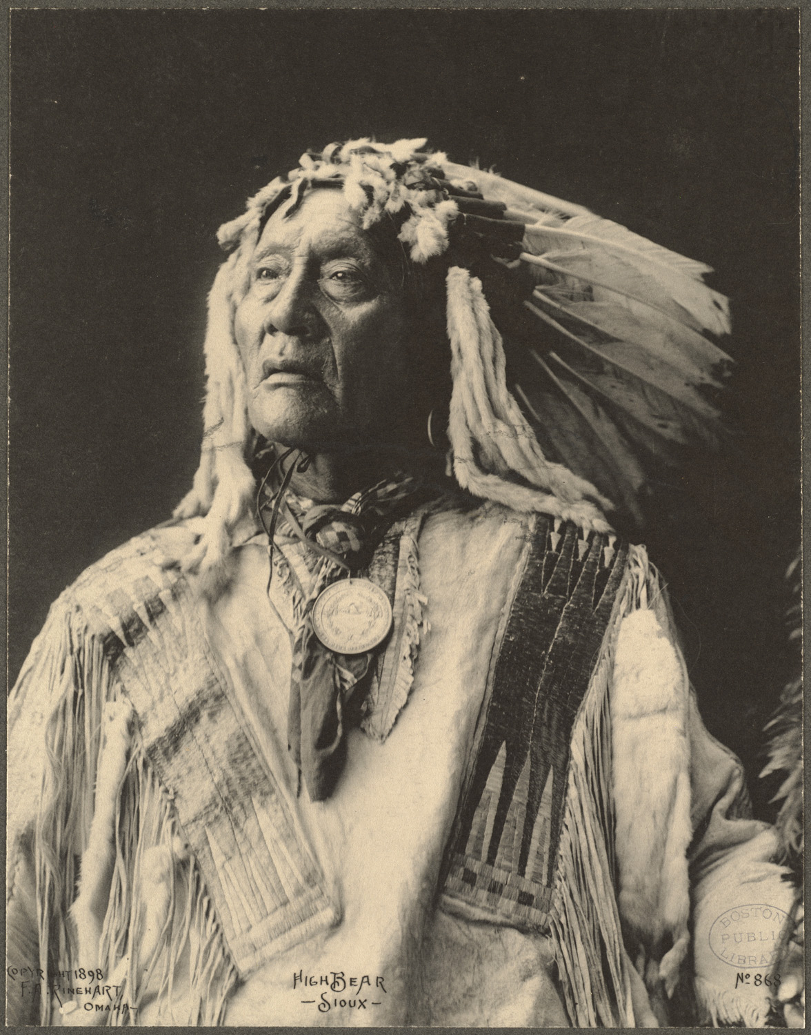 BPLDC no.: 09_06_000026 Rinehart no.: 868 Title: High Bear, Sioux Photographer: Rinehart, F. A. (Frank A.) Copyright date: 1898 Extent: 1 photographic print : platinum Genre: Platinum prints; Portrait photographs Subject: Indians of North America; Dakota Indians; Trans-Mississippi and International Exposition (1898 : Omaha, Neb.) BPL Department: Print Department